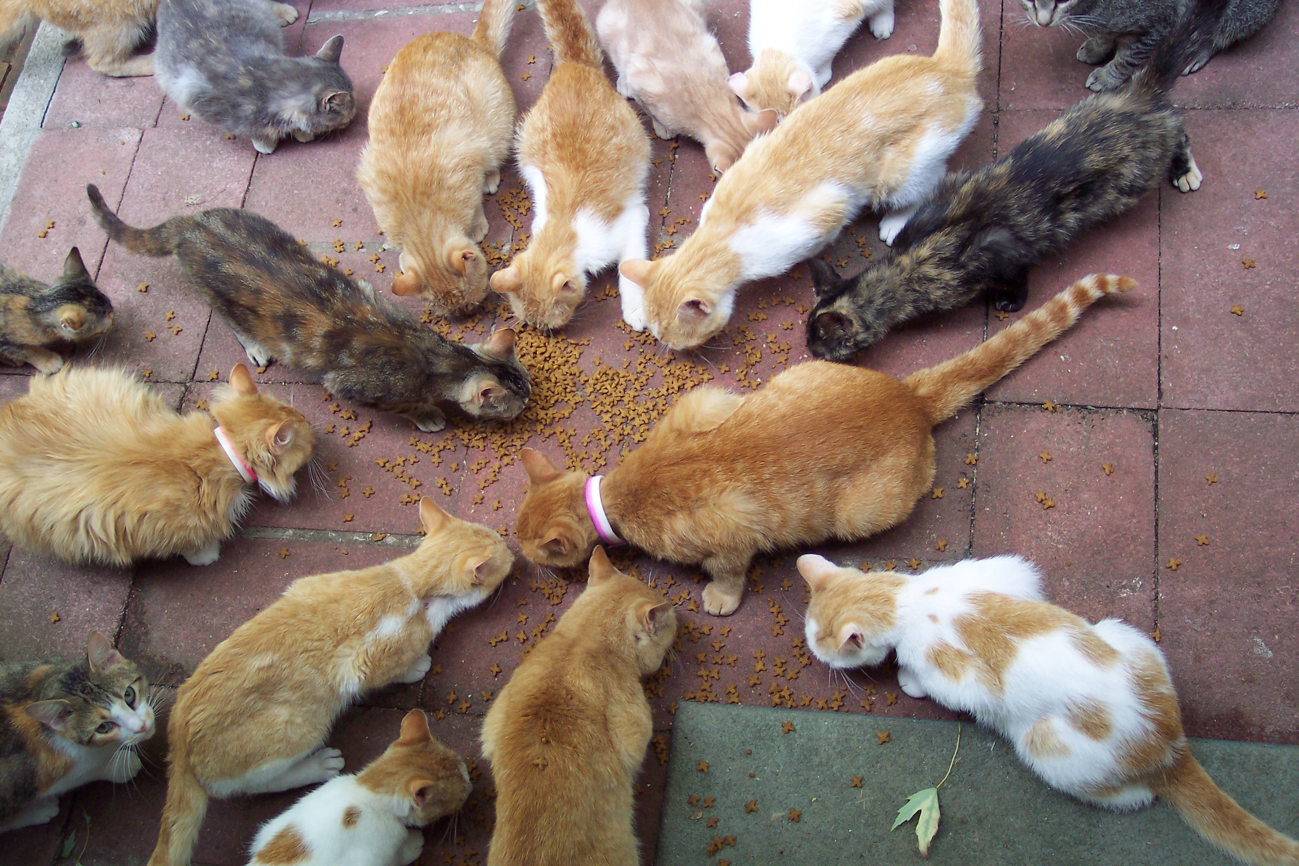 Dinner time for the feral cats who live in my Mom's backyard & enivrons, Arrow Rock, Missouri, 20050703